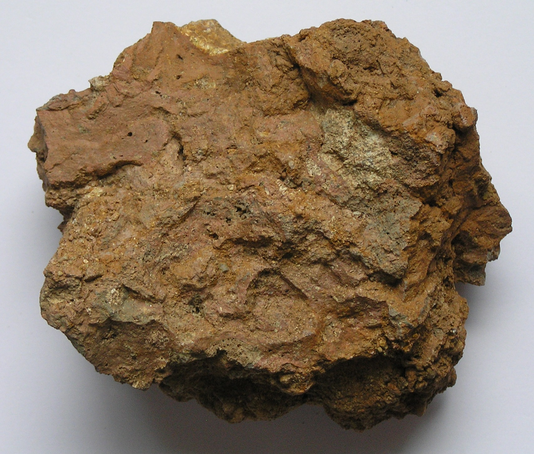 Roter Suevit